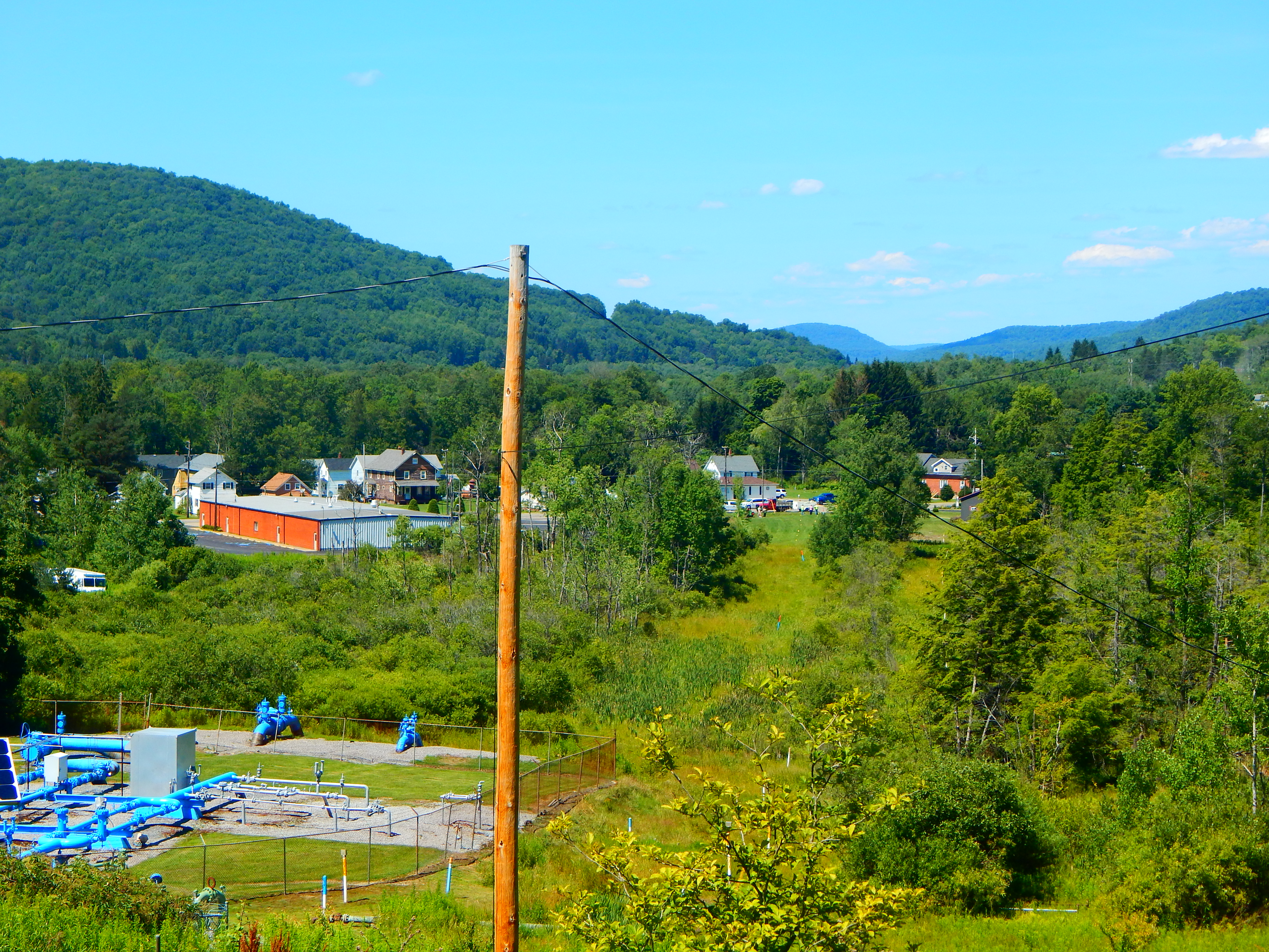 Lewis Run, Pennsylvania from the hills above on State Route 4001.